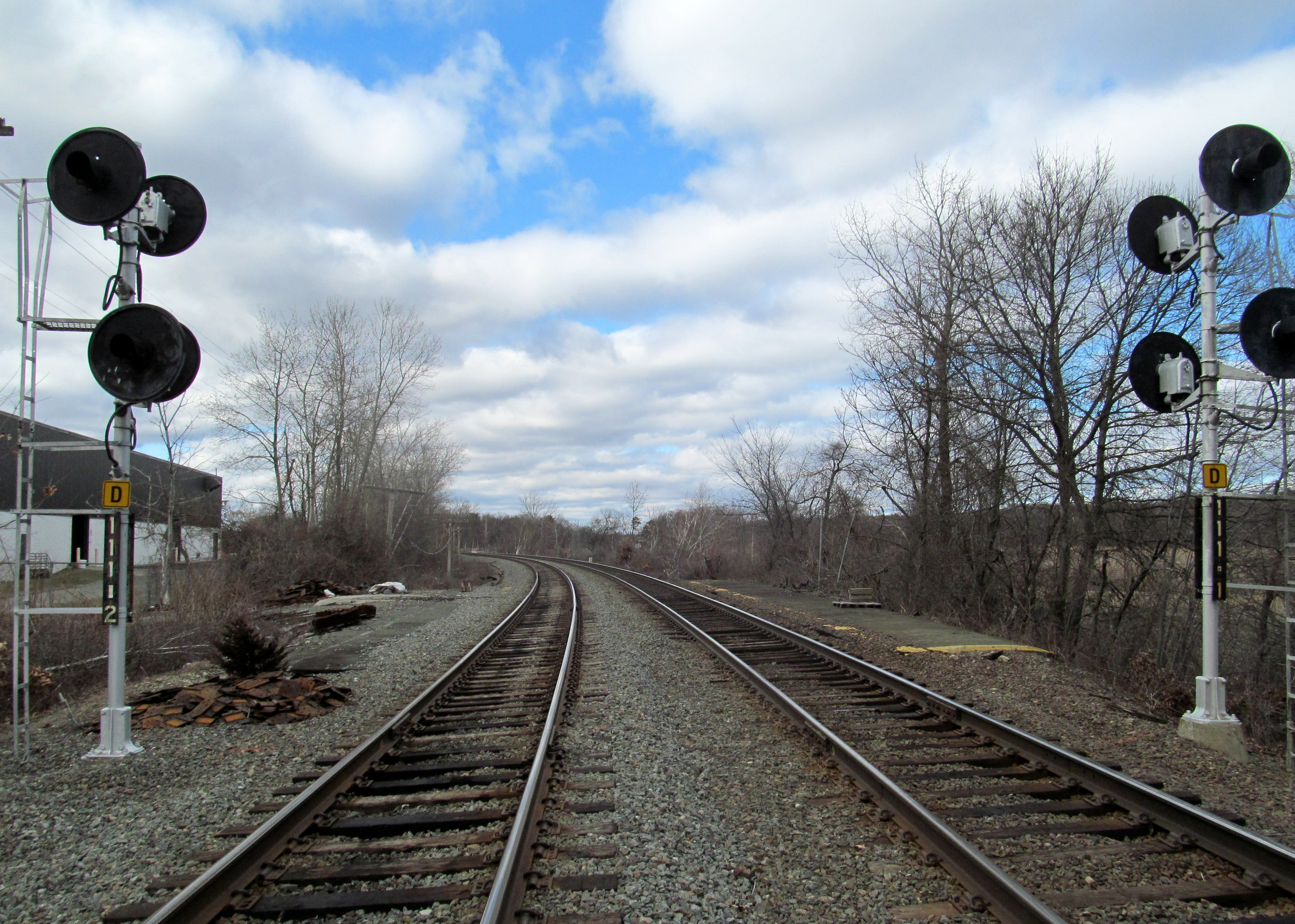 The former platforms of Lechmere Warehouse station in April 2017